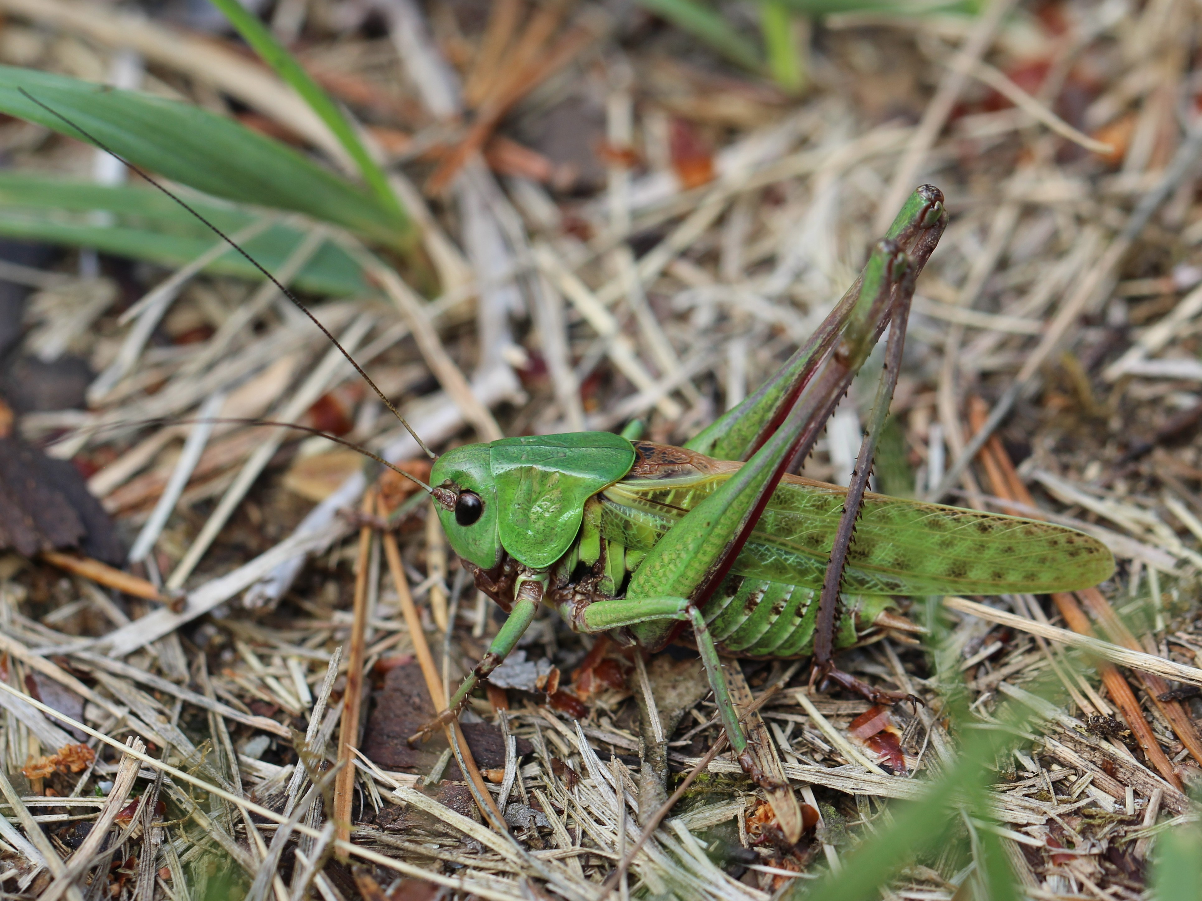 Decticus verrucivorus